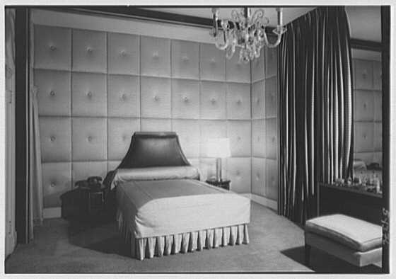 Title: Mr. Max Ausnit, residence at 521 Park Ave., New York City. Abstract/medium: Gottscho-Schleisner Collection (Library of Congress) Physical description: 1 negative